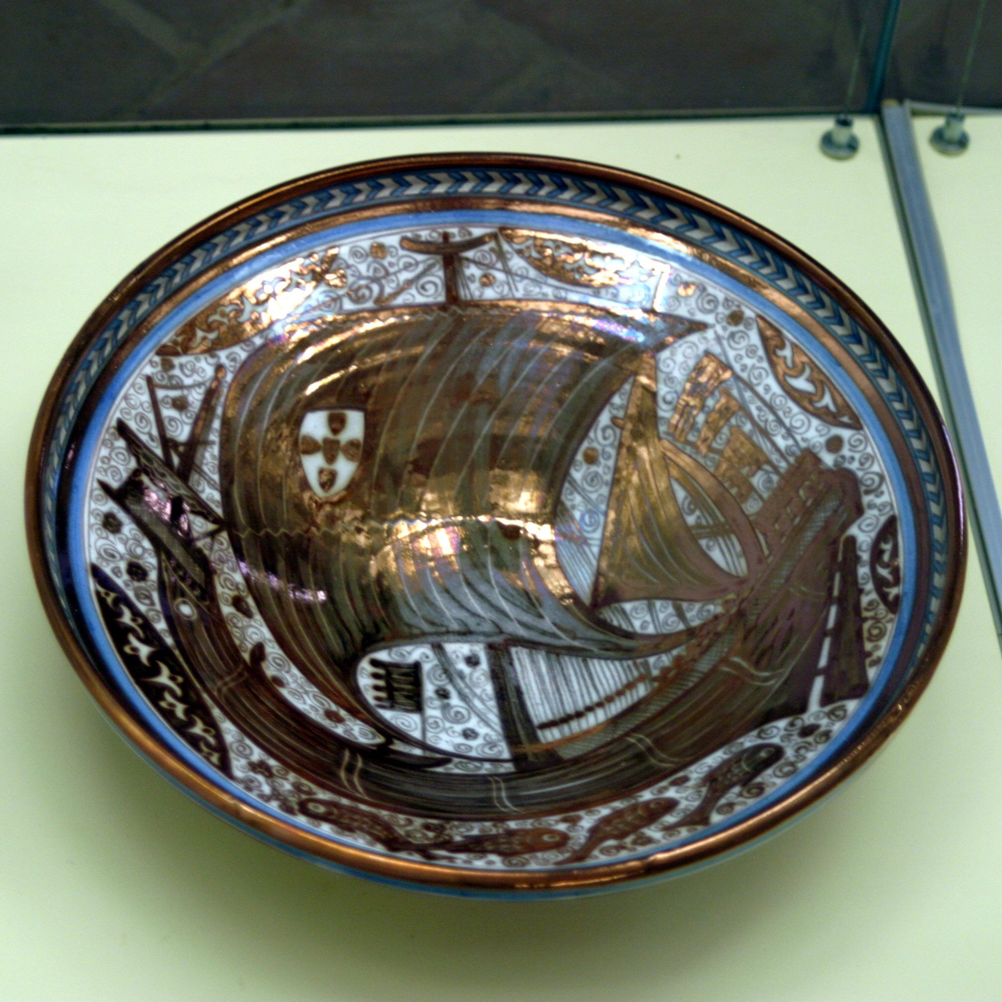 Alcazaba of Malaga, Spain